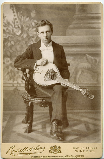 Portrait of Herbert J. Ellis, English banjo player, mandolinist, guitar player, author and composer.;Other information: Herbert J. Ellis (the subject of the photo) died in 1903 and the photo shows him as a young man.